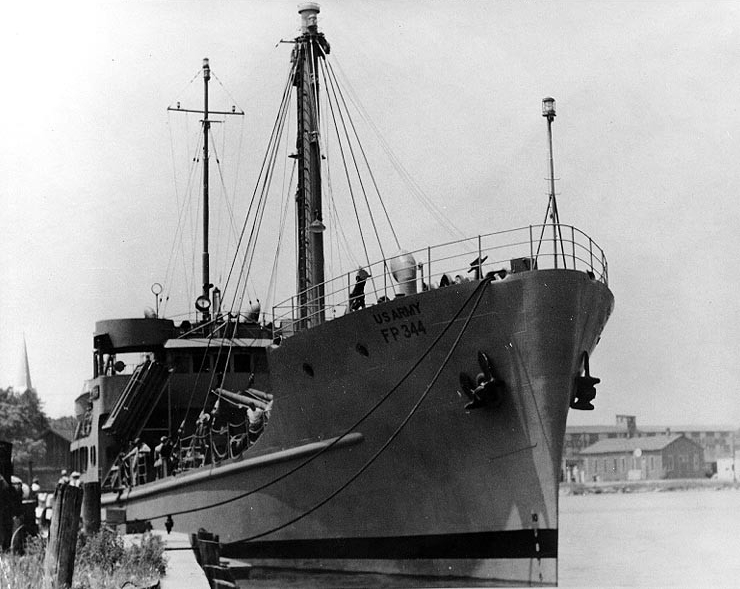 U.S. Army Cargo Vessel FP-344 fitting out at the Kewaunee Shipbuilding & Engineering Corp. shipyard, Kewaunee, Wisconsin (USA), circa July 1944. FP-344 was later renamed FS-344. It was transferred to the U.S. Navy in 1966, she became USS Pueblo (AGER-2).